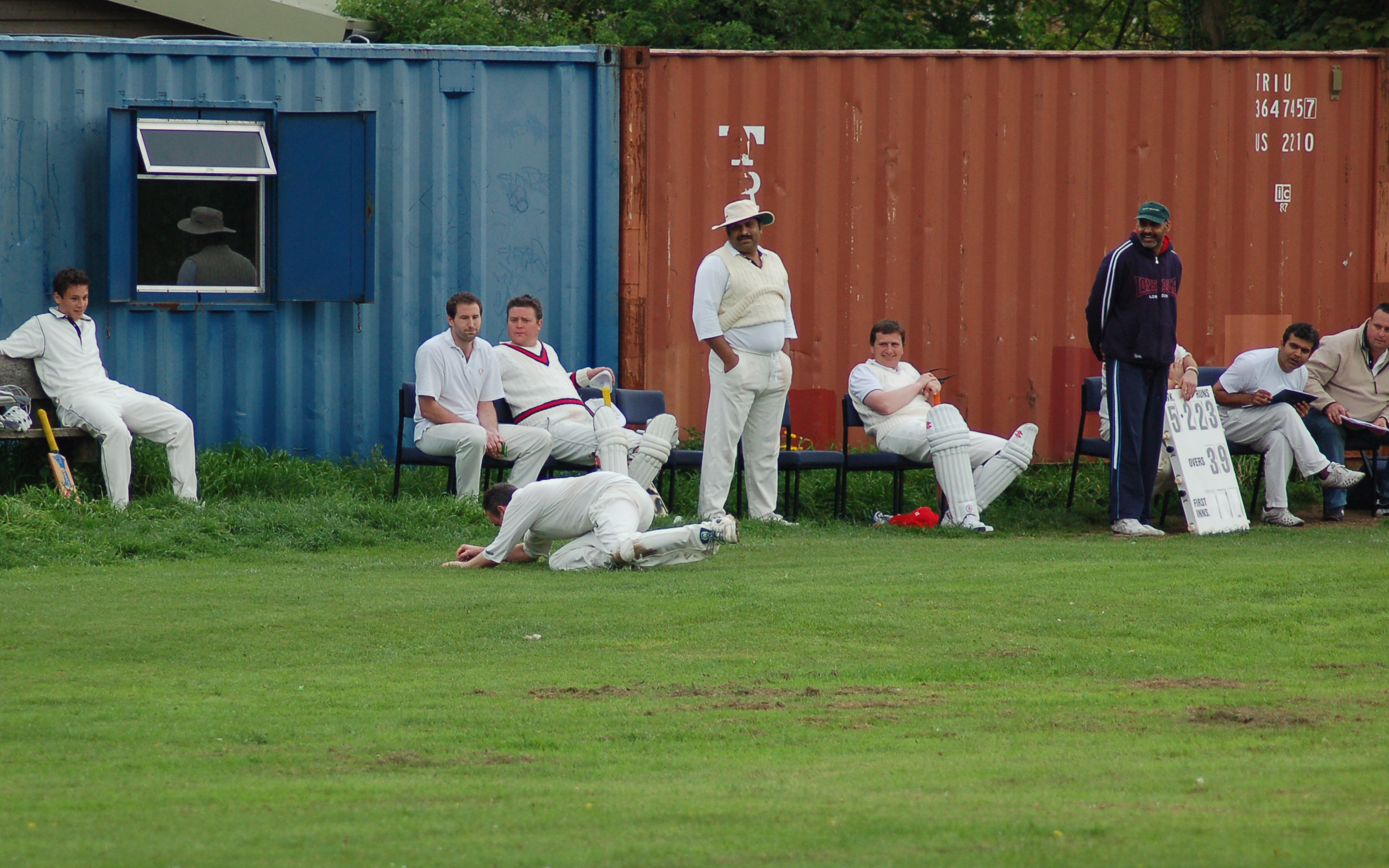 A PG CC player watched by Elstead CC players